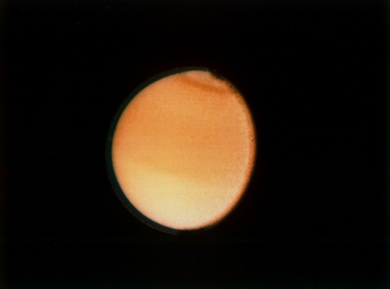 This Voyager 2 photograph of Titan, taken Aug. 23 from a range of 2.3 million kilometers (1.4 million miles), shows some detail in the cloud systems on this Saturnian moon. The southern hemisphere appears lighter in contrast, a well-defined band is seen near the equator, and a dark collar is evident at the north pole. All these bands are associated with cloud circulation in Titan's atmosphere. The extended haze, composed of submicron-size particles, is seen clearly around the satellite's limb. This image was composed from blue, green and violet frames.